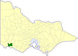 Location of the former Shire of Minhamite within Victoria.